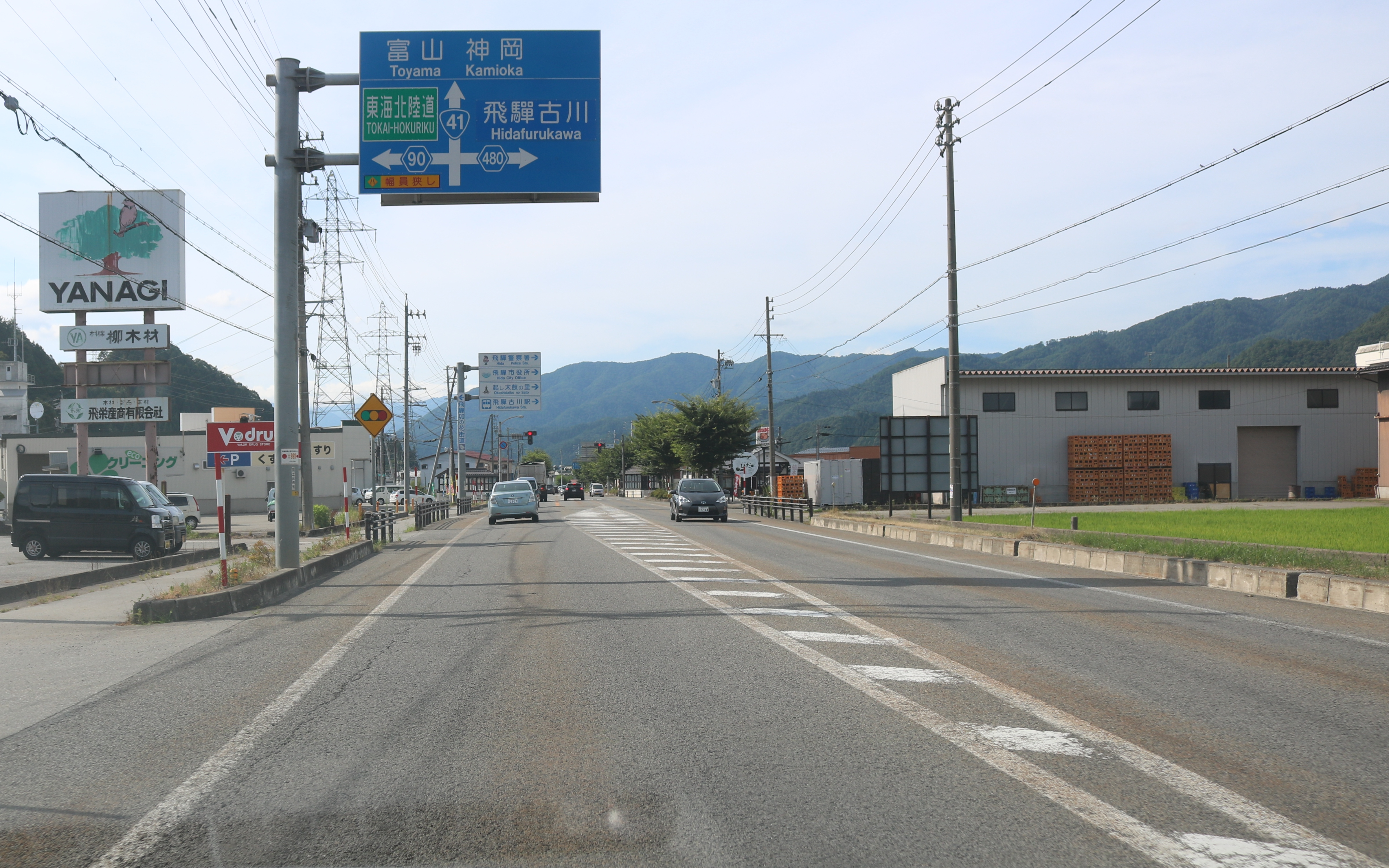 Route 41 in Furukawacho, Hida, Gifu prefecture, Japan. Canon EOS Kiss X8i